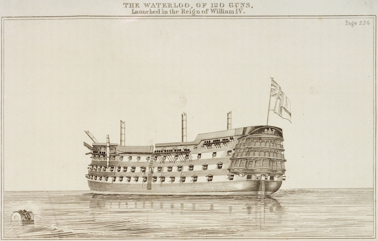 The Waterloo, of 120 Guns, Launched in the Reign of William IV (PAD6159) Page 224 Etching Measurementsː Mount: 143 mm x 211 mm Taken from same book as PAD0253